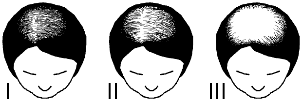 This picture shows the Erich Ludwig's female pattern baldness classification system. I: Visible thinning of the hair on the top of the head, but 1-3 cm area behind the frontal hairline remains dense. II: More extensive thinning of the hair than in I. III: Full baldness.